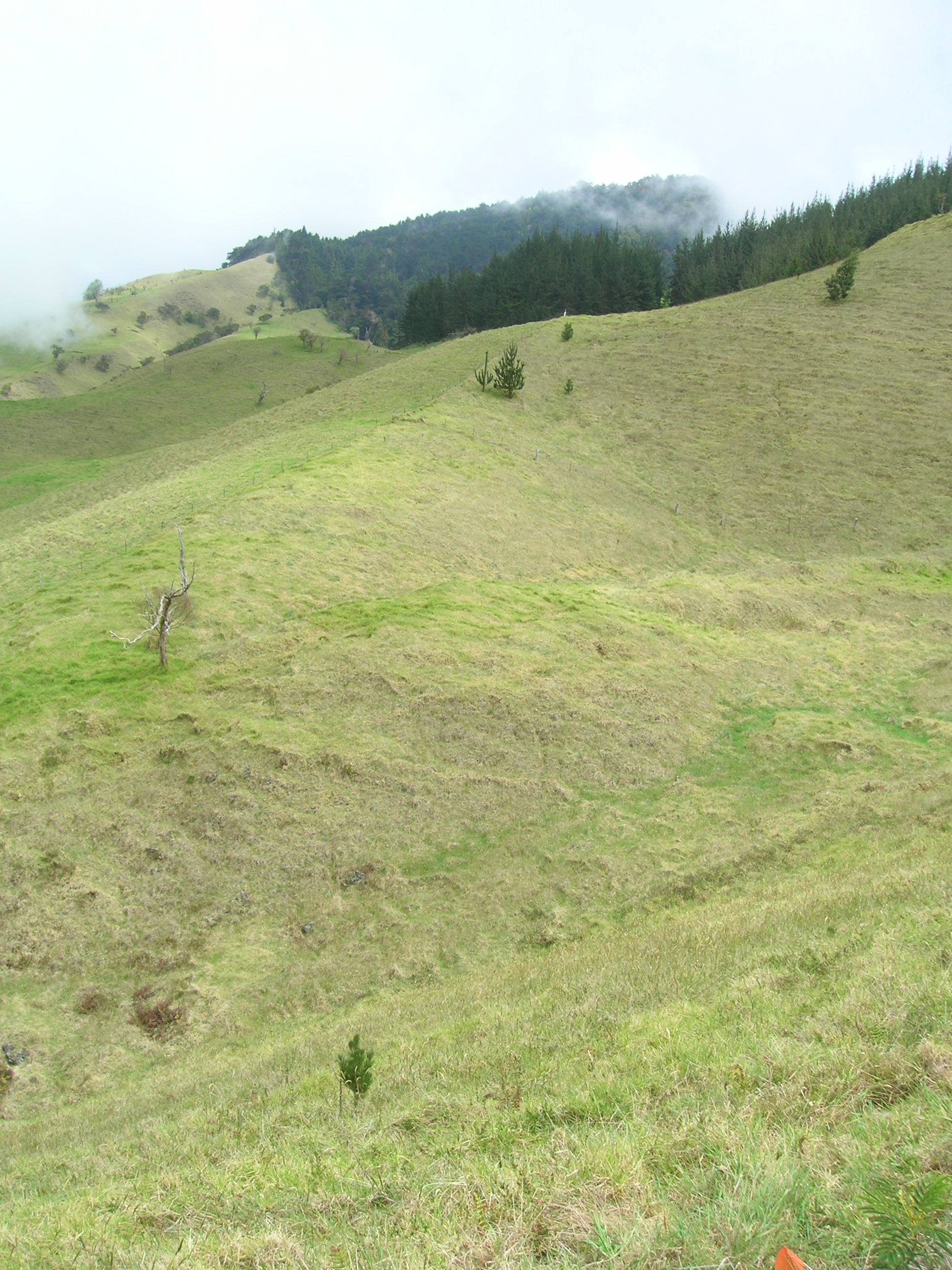 Location: Maui, Puu Makua